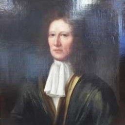 Sir John Hewley (1619 - 1697), English magistrate and MP. guess 1690